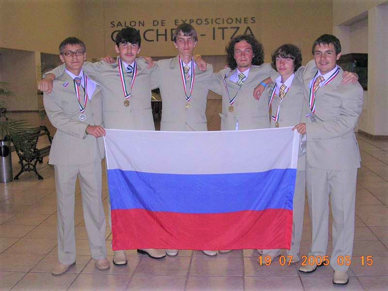 Team Russia at the International Mathematical Olympiad (IMO) 2005 (left-to-right line-up: Alexey Katyshev, Andrey Gavrilyuk, Pavel Kozlov, Nikita Kalinin, Alexander Magazinov, Vasily Astakhov)